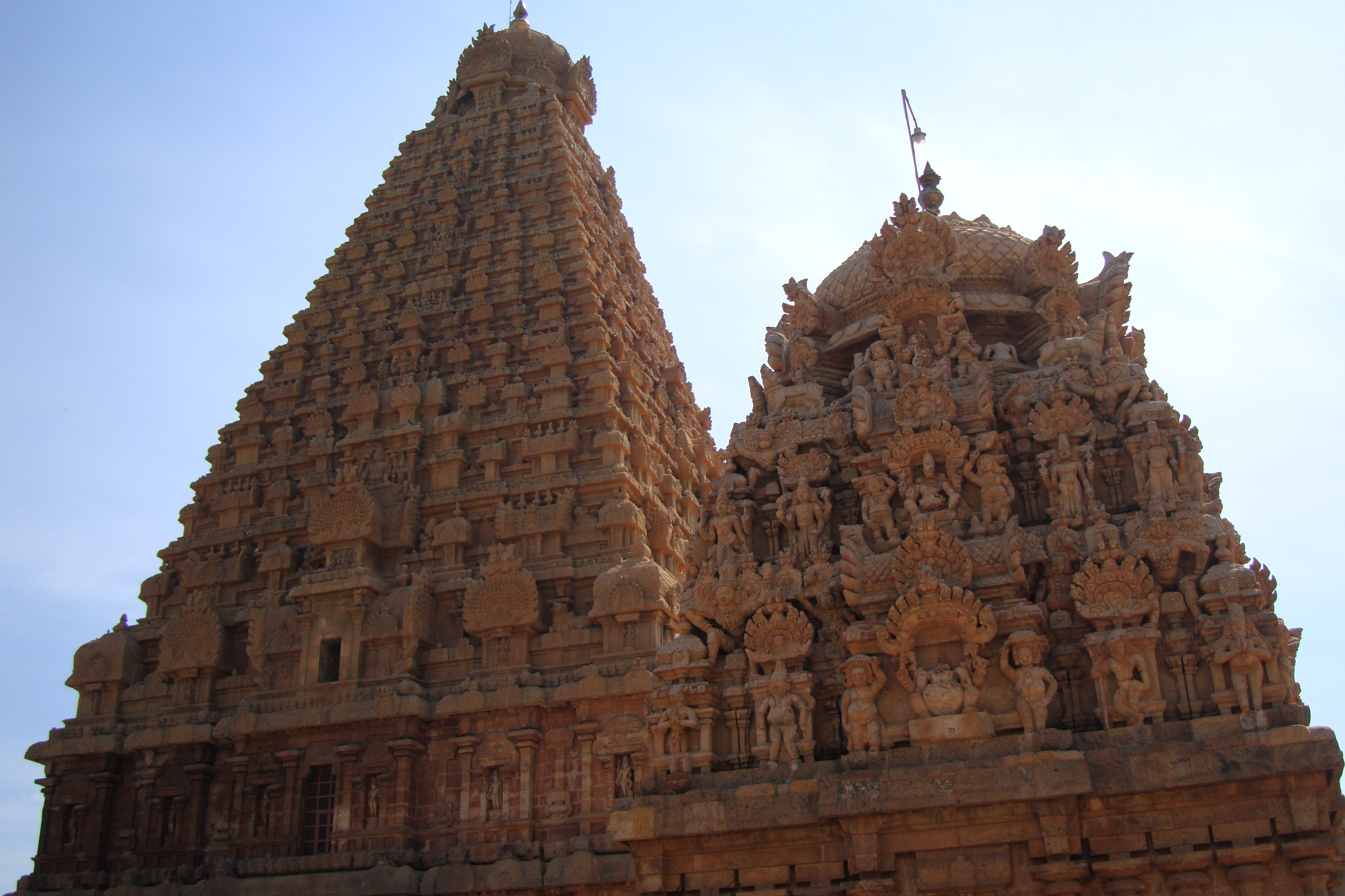 The entire temple is made of hard granite stones!